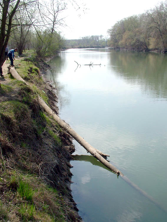 river Turunchuk, Ukraine